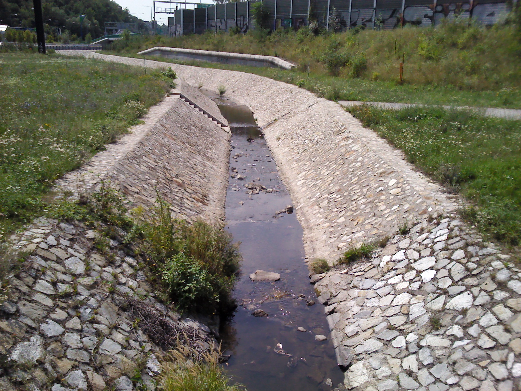 Vydrica river in Mlynská Dolina, Bratislava, the capital of Slovakia. In the background is the entrance road to the southern portal of the Sitina Tunnel carrying the D2 highway.